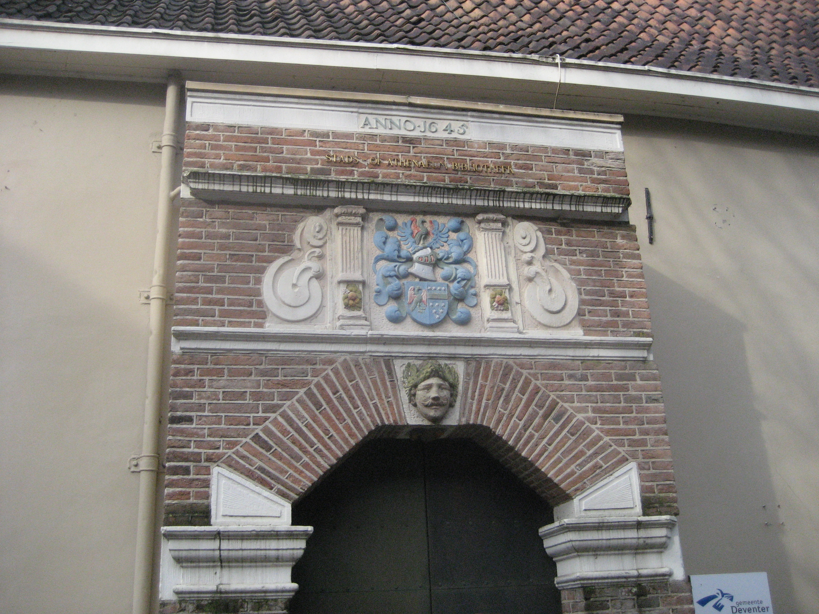 Entrance gate of Atheneum Library, Deventer (the Netherlands)